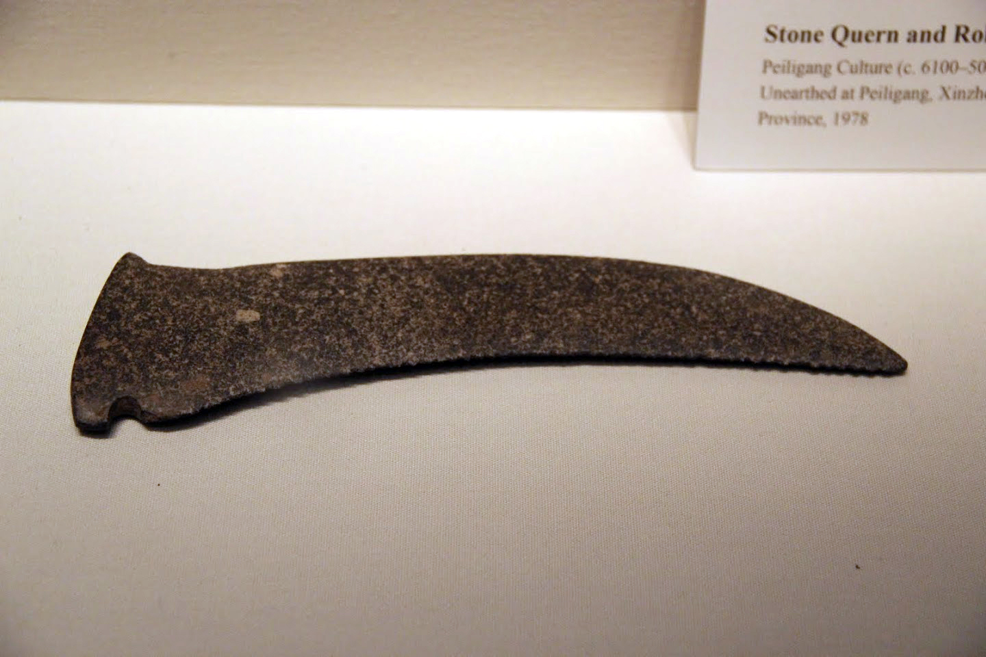 Neolithic stone sickle, Peiligang Culture, Jiaxian, Henan, found in 1976. National Museum of China, Beijing